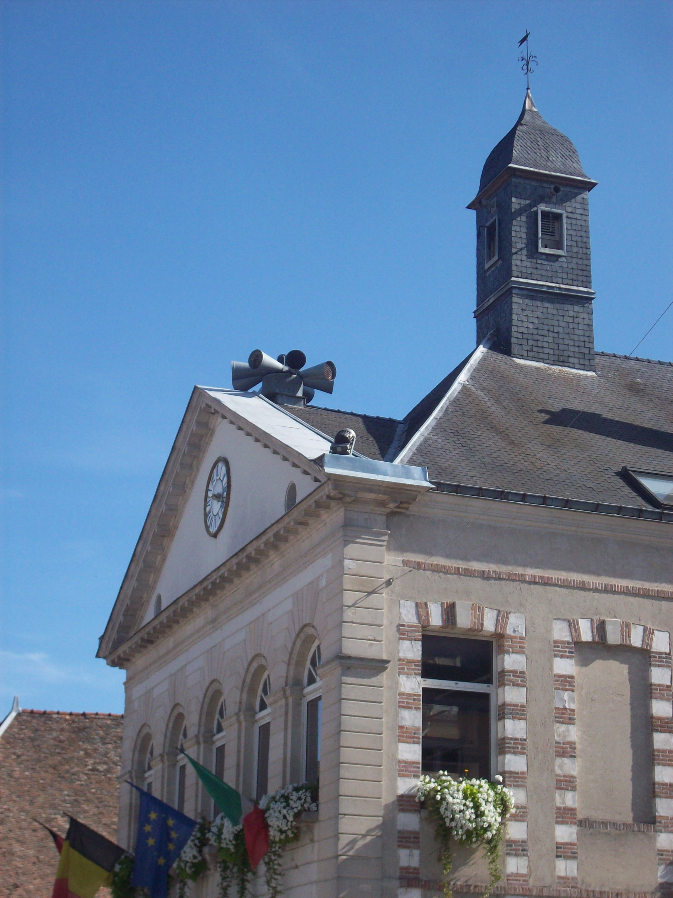 Townhall of Aÿ